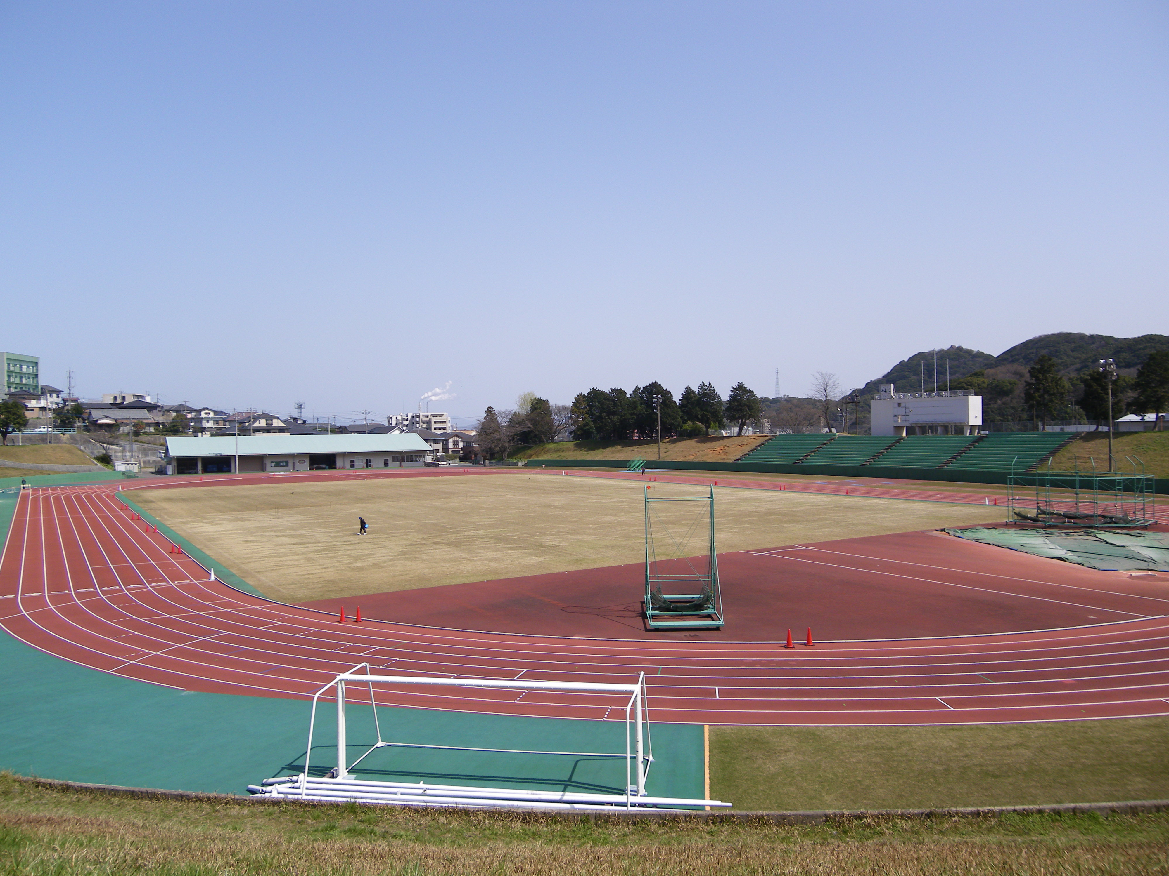 The Sayagatani Athletic Field,Tobata,Kitakyushu.